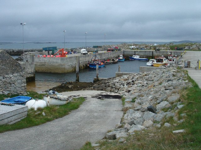 Berneray harbour, Outer Hebrides, Scotland